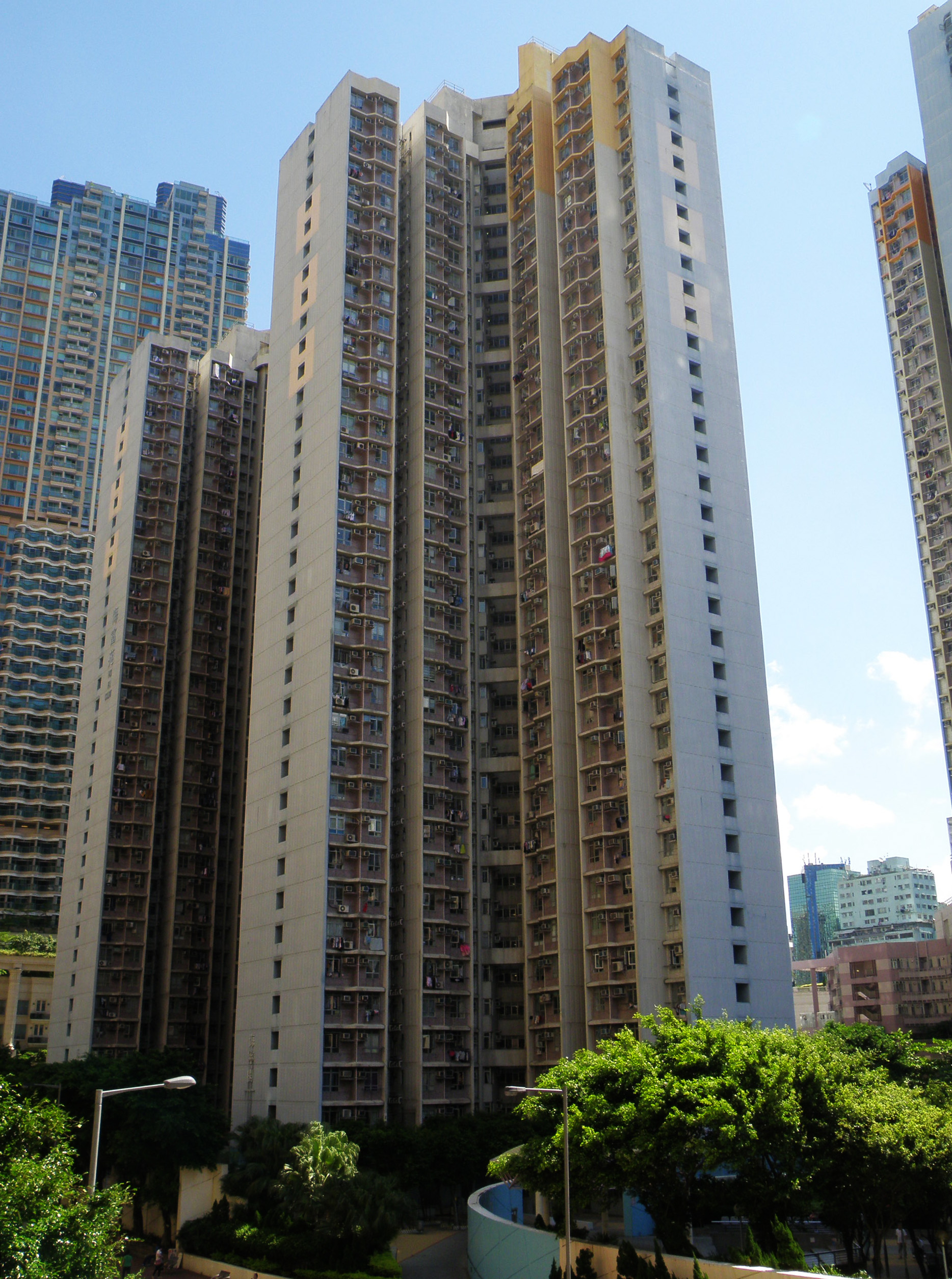 Hoi Ning House in Mong kok, Hong Kong.